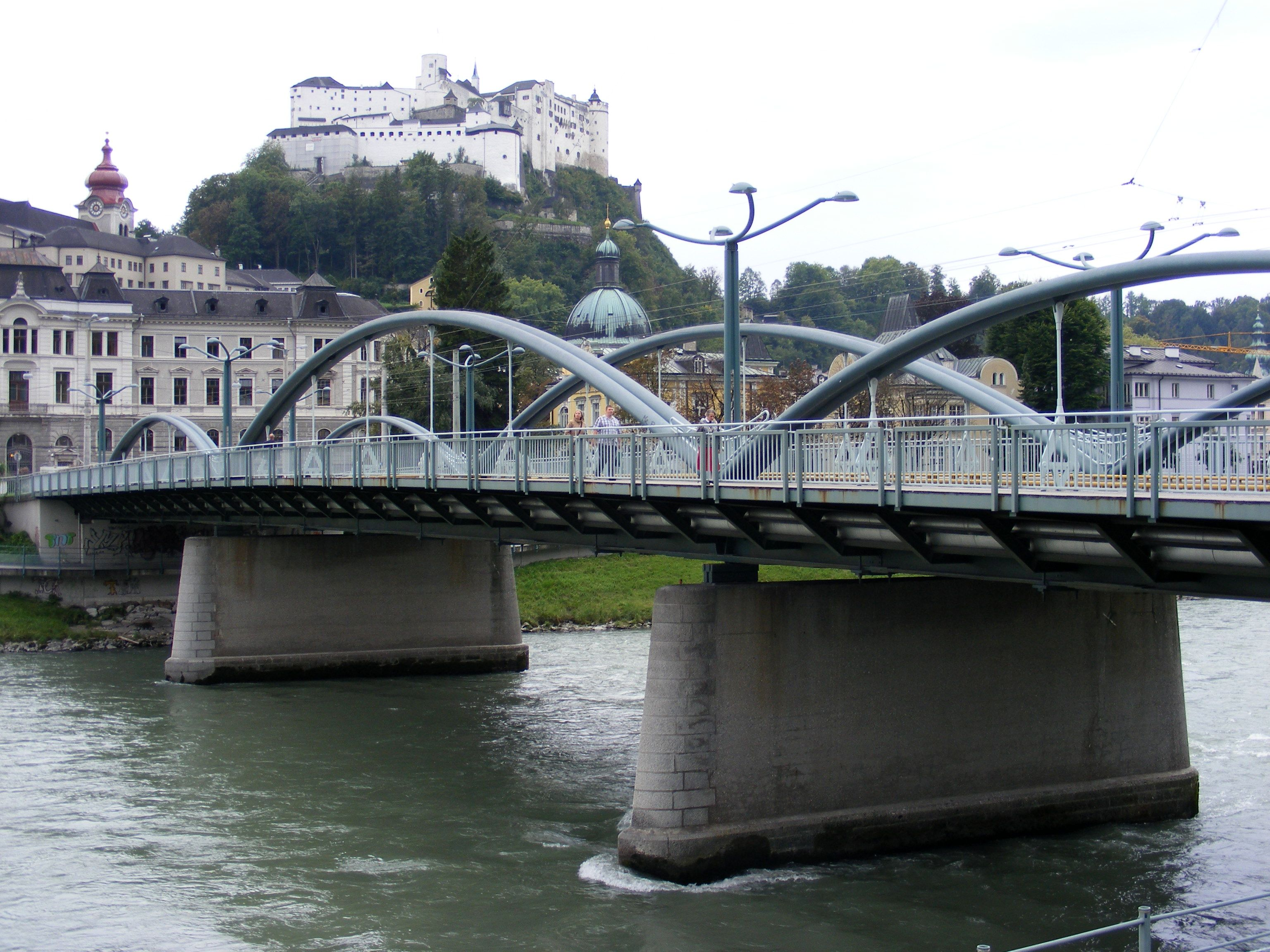 Karolinen Bridge (also named Nonntal Bridge)